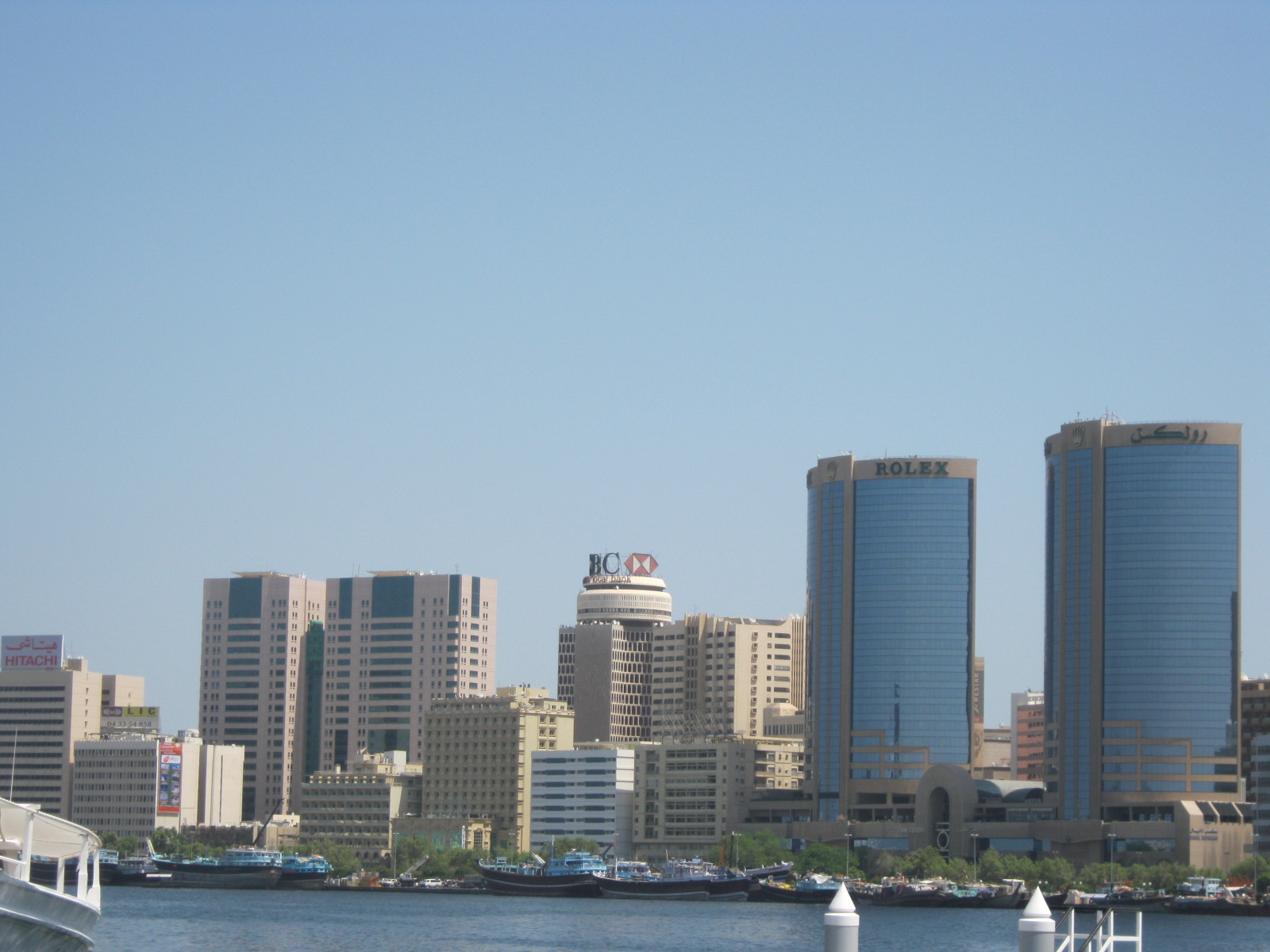 Deira Skyline from across the Creek